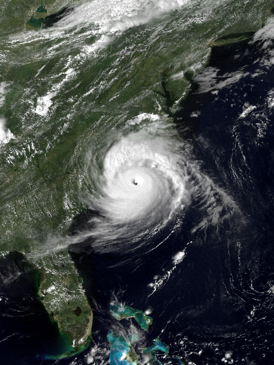 Hurricane Diana on September 11, 1984